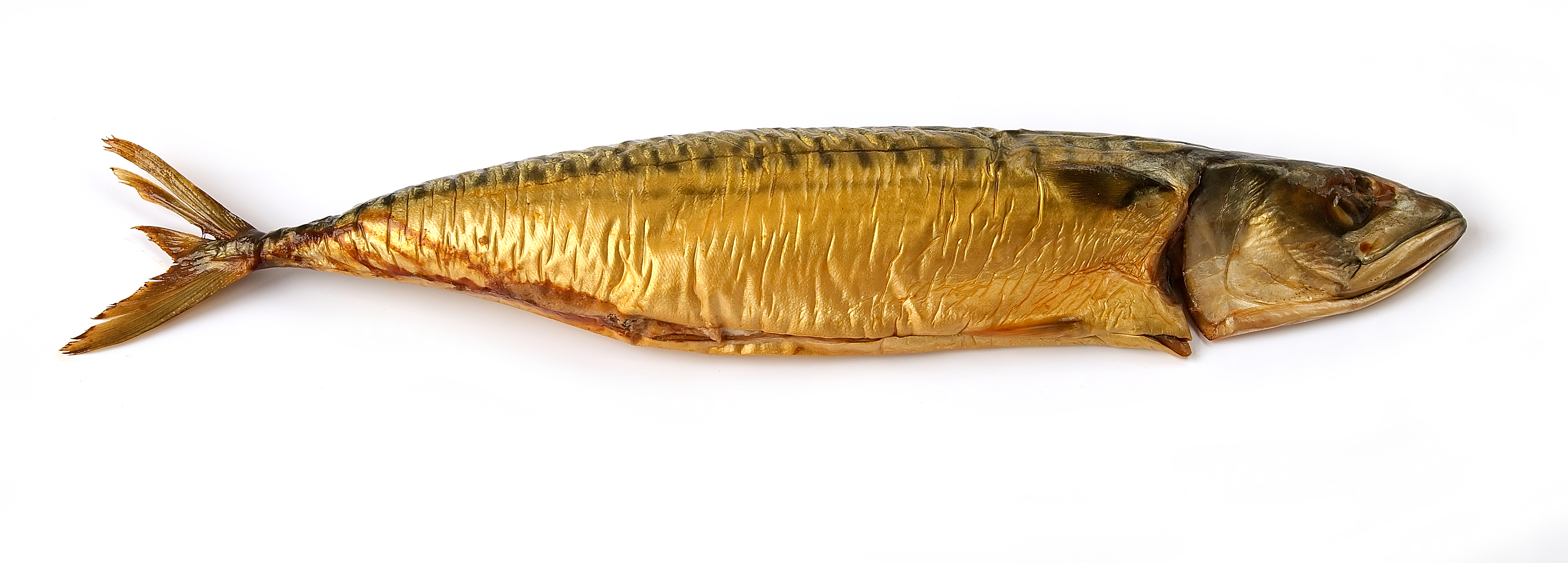 Atlantic mackerel Scomber scombrus.